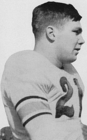 Photograph of Purdue football player Dick Barwegan